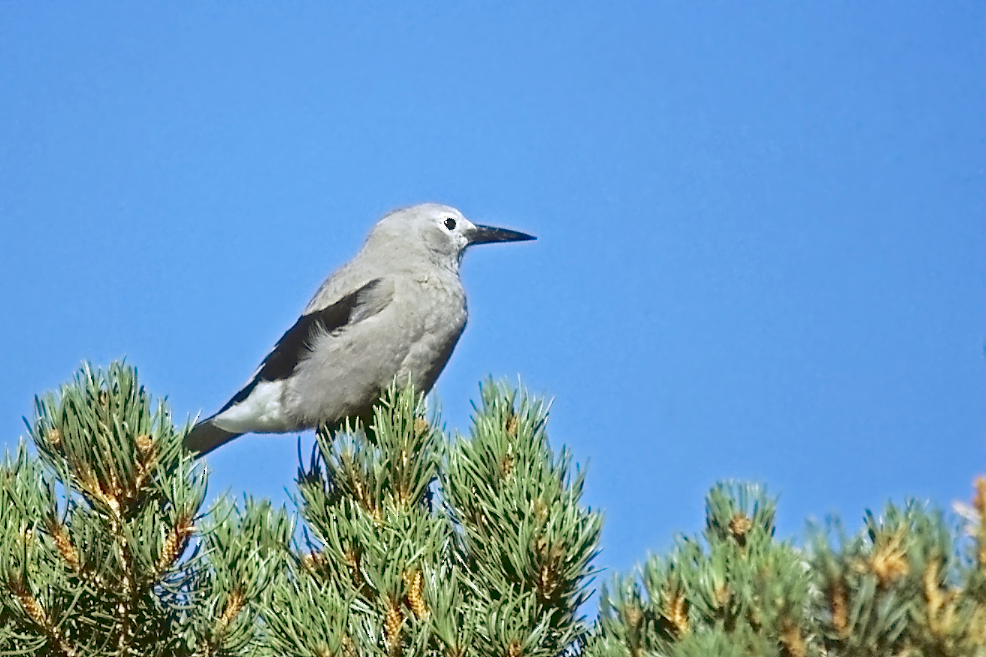 This bird is well named; the Clark's Nutcracker hides thousands of nuts for the winter and remembers where they are located.